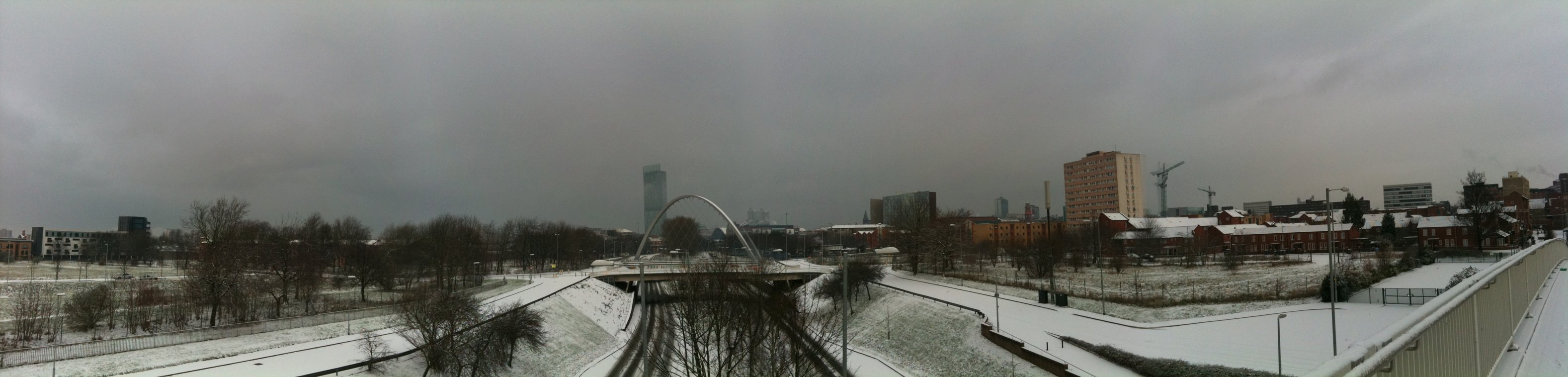 A panorama of Hulme in Manchester, England